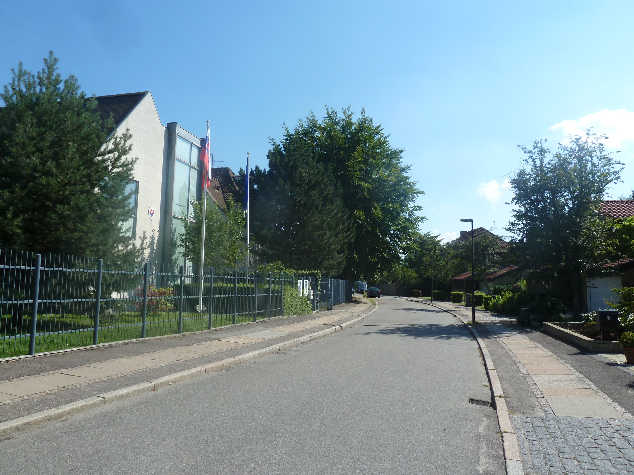 The street Vesterled in Østerbro in Copenhagen. The Slovakian Embassy at the left.